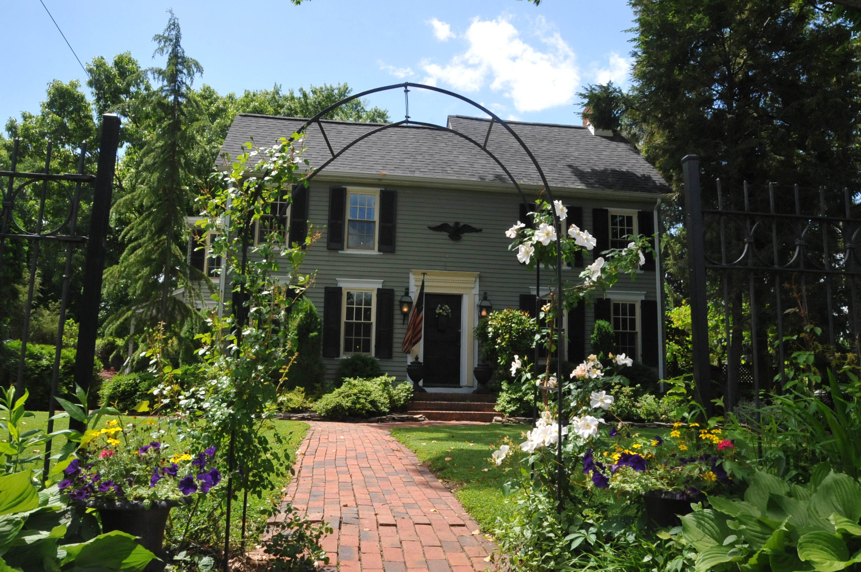 SPICER HOUSE; IN THE EARLY EIGHTEENTH CENTURY, THIS CHARMING COLONIAL HOME WAS OWNED BY JACOB SPICER, ONE OF THE EARLIEST SETTLERS OF SOUTH MULLICA HILL, ONCE KNOWN AS SPICERVILLE